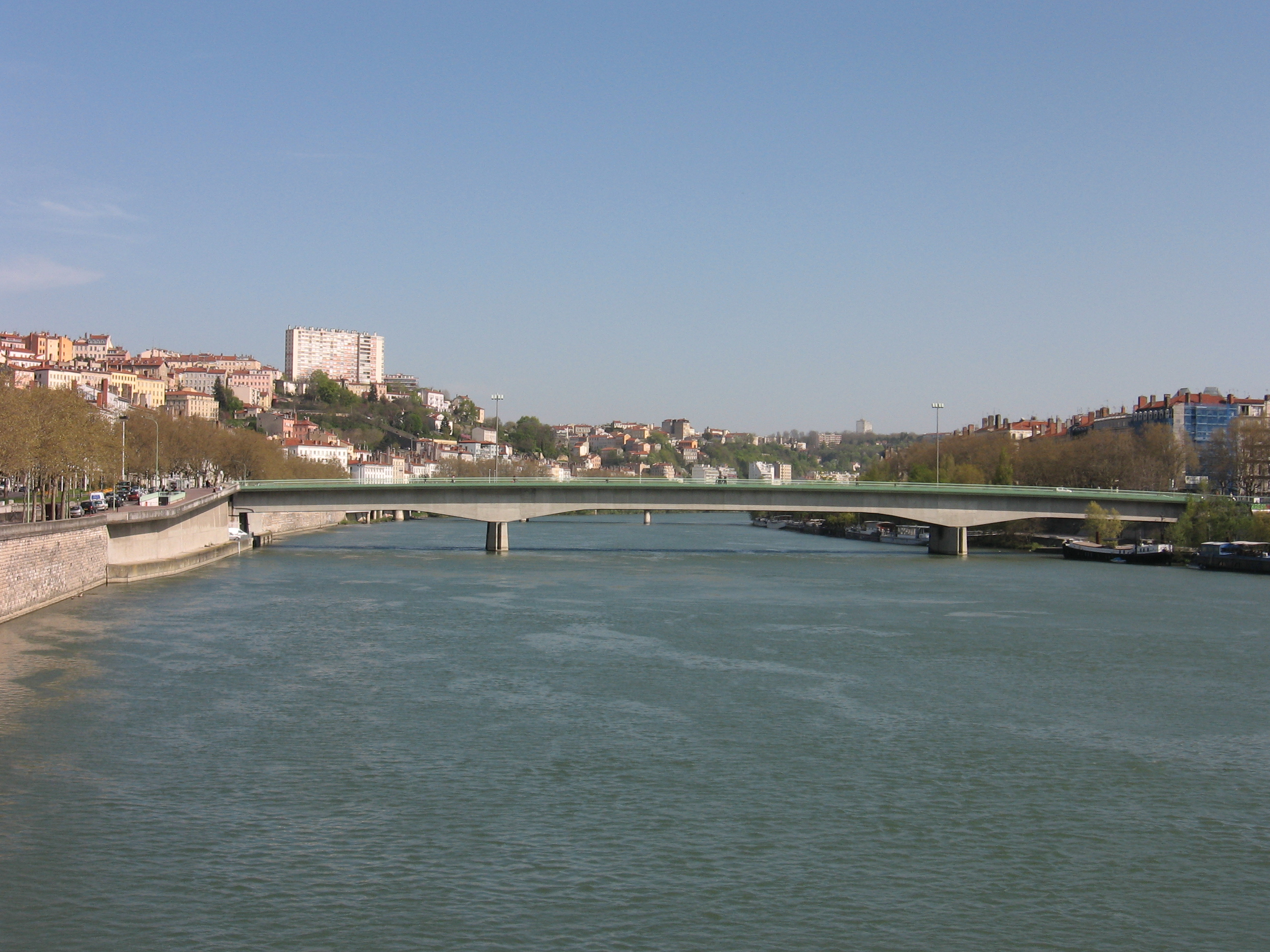 Bridge in Lyon